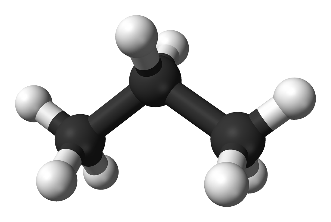 Ball-and-stick model of the propane molecule, C3H8.